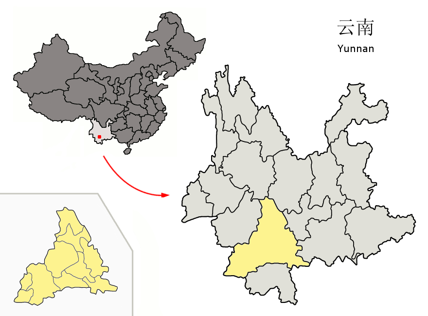 Location of Pu'er Prefecture (yellow) within Yunnan province of China Map drawn in september 2007 using various sources, mainly : Yunnan province administrative regions GIS data: 1:1M, County level, 1990 Yunnan Counties map from